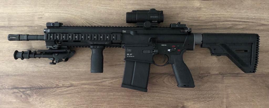 my newest Project